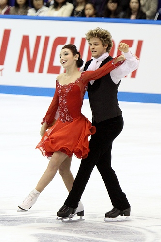 2010 NHK Trophy - Meryl Davis and Charlie White